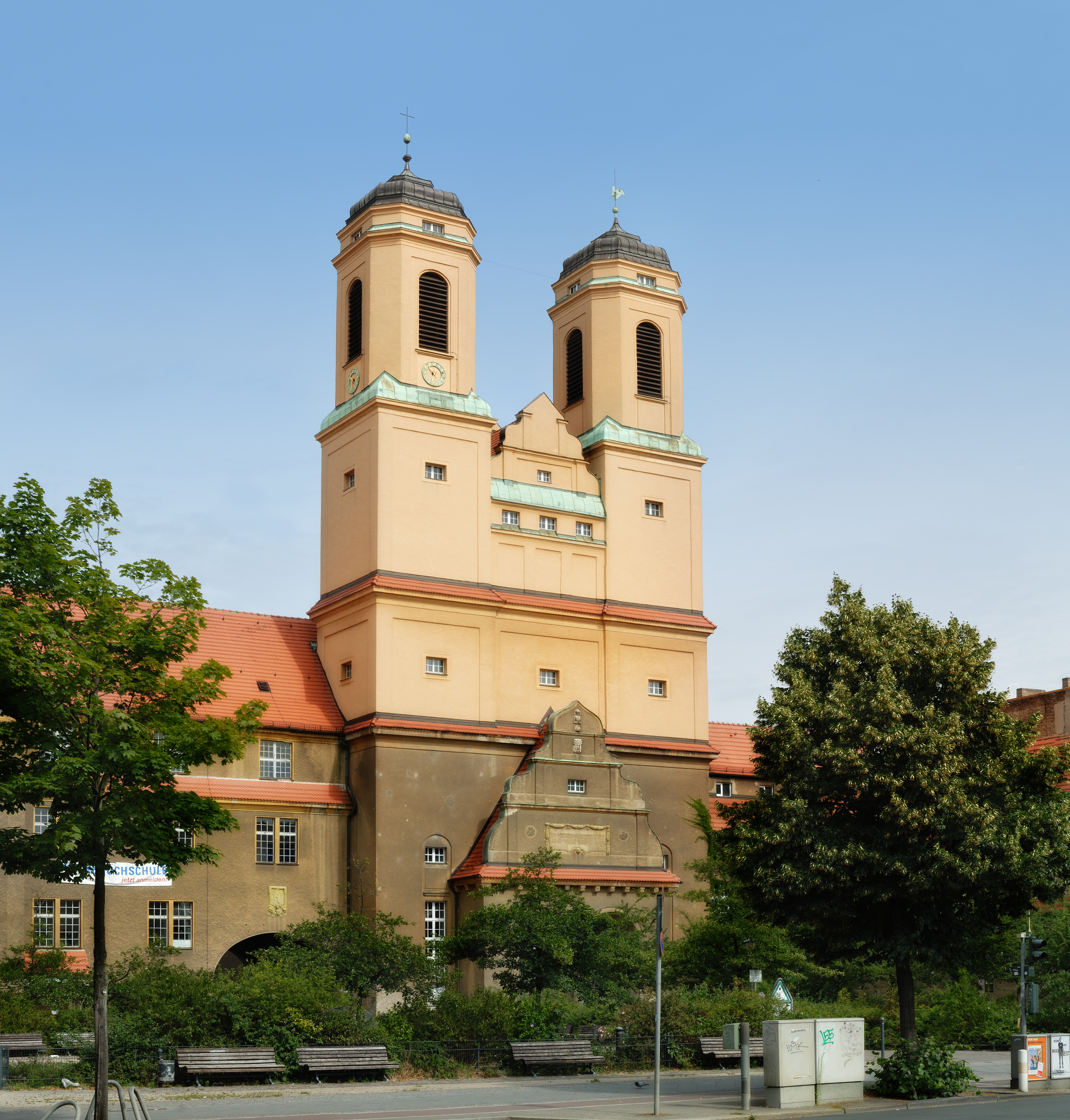 This image shows the church "Zum Vaterhaus" ("to the parental home") in Berlin, Germany. It is a six segment panoramic image.